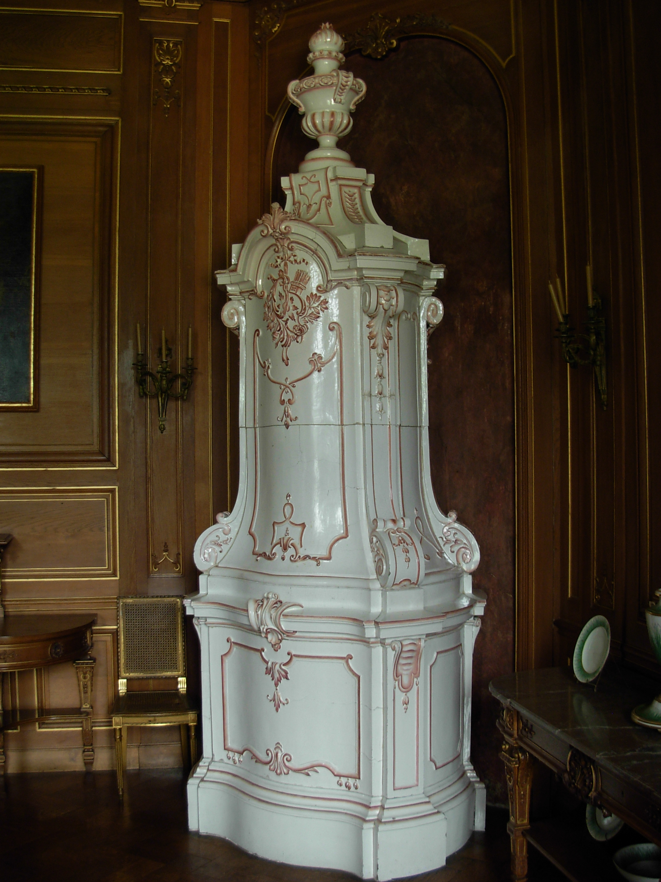 Łańcut Castle and neighbourhood. Many photos courtesy of Łańcut Museum staff.